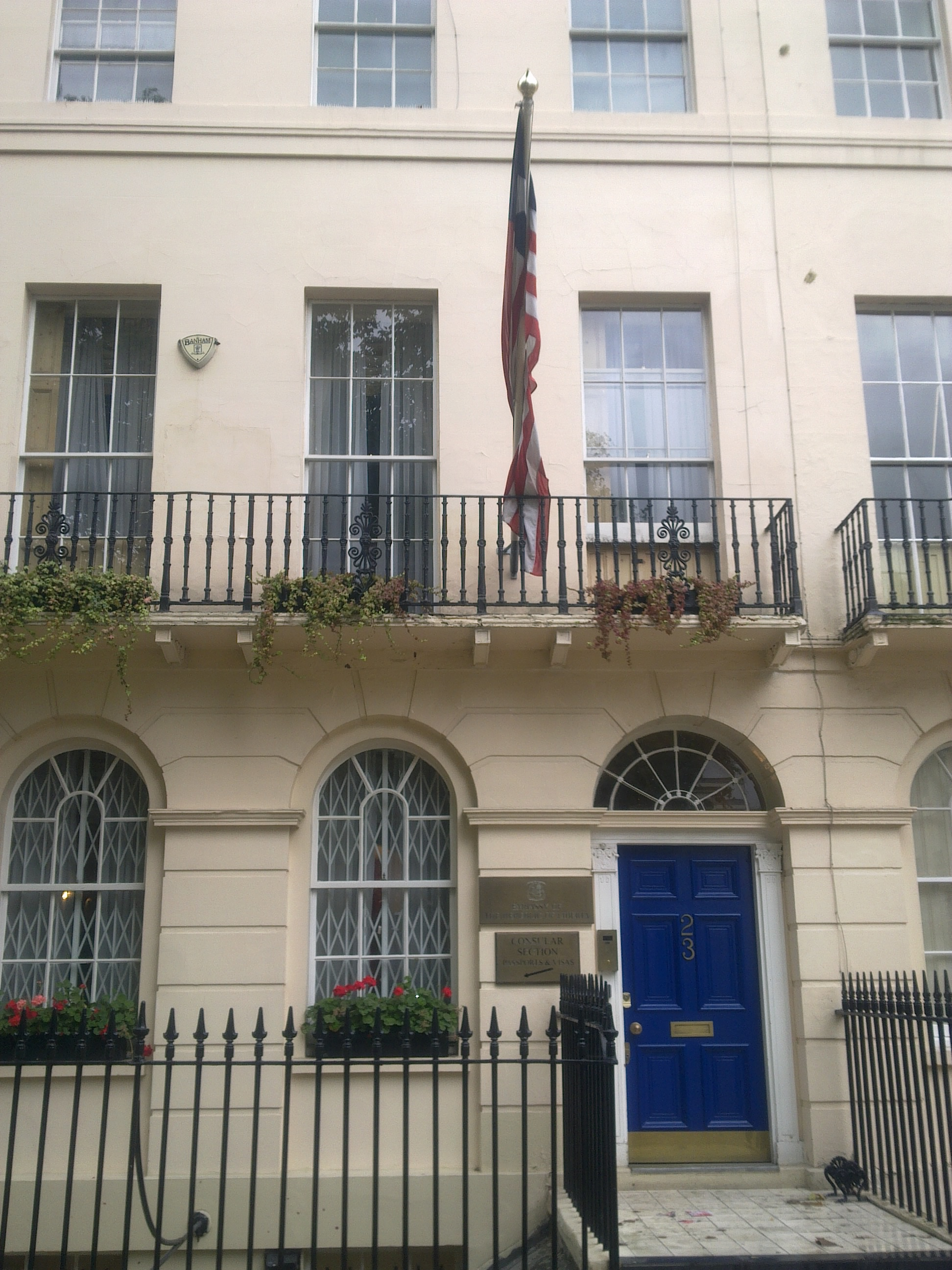 Embassy of Liberia in London 1